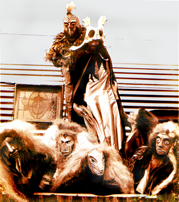 These photoes were taken by the official Nambassa photographer at the 1978 Nambassa Winter Show in New Zealand. Photographer Paul Gilbert. Uploaded by Mombas 09:23, 3 May 2007 (UTC) Summary Terms of Use: 1/ All users of this image are required to attribute this work to "Nambassa Trust and Peter Terry" and the URL: " " is to accompany all use. 2/ Attribution. You must attribute the work in the manner specified by the author or licensor. 3/ For any reuse or distribution, you must make clear to others the license terms of this work. Statement by Nambassa Trust and Peter Terry